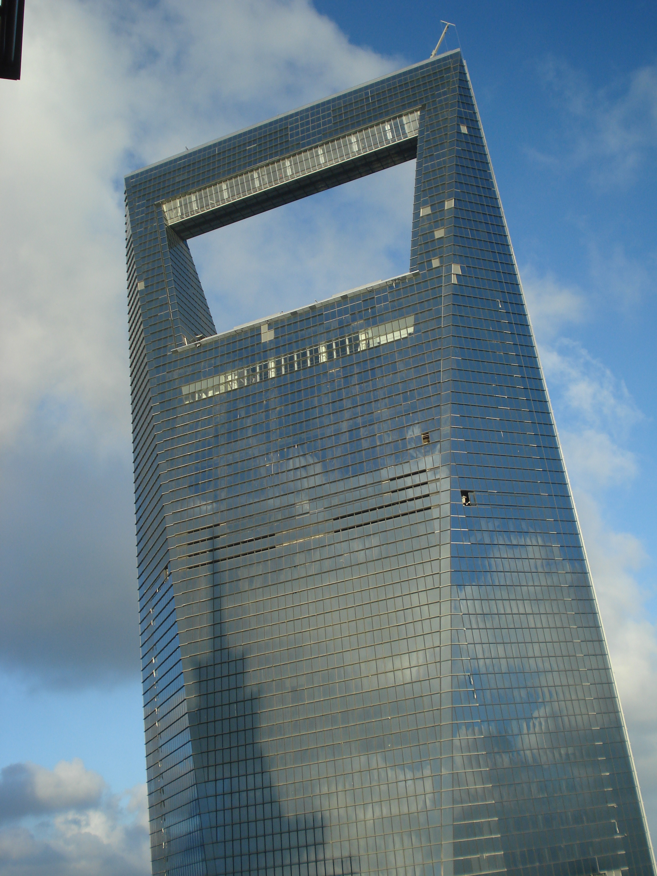 Top of the Shanghai World Financial Center as seen from the 88th floor of the Jin Mao Tower